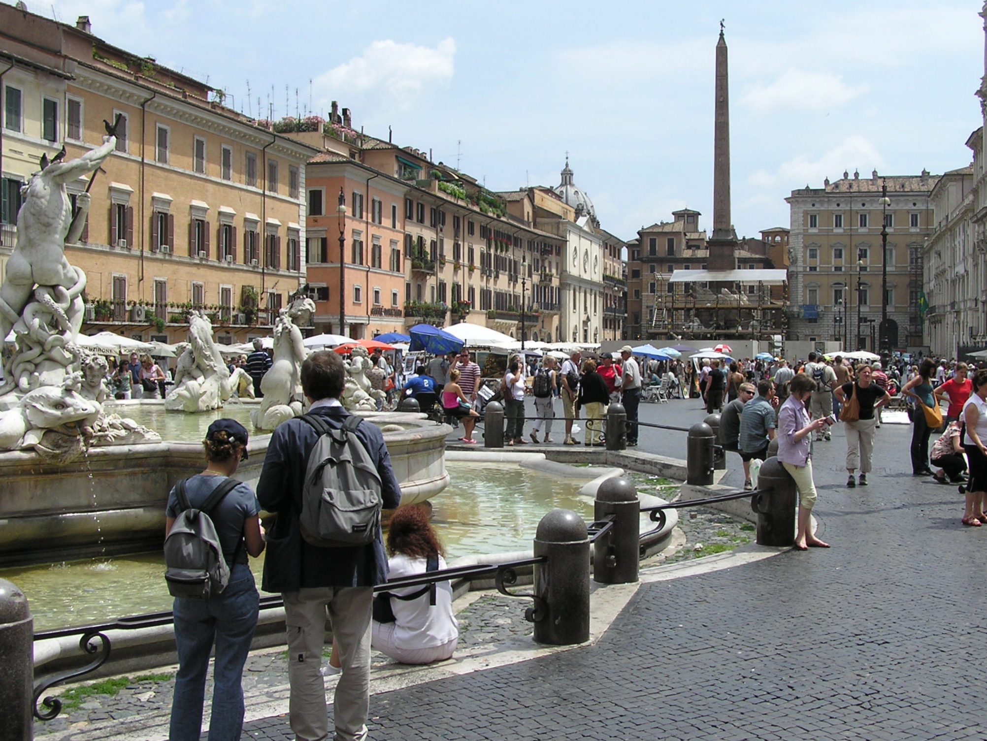 Piazza Navona and the Fontana (fountain) del Moro in central Rome, Italy. The other fountain (visible in the background, surrounded by scaffolding) is Fontana dei Fiumi.